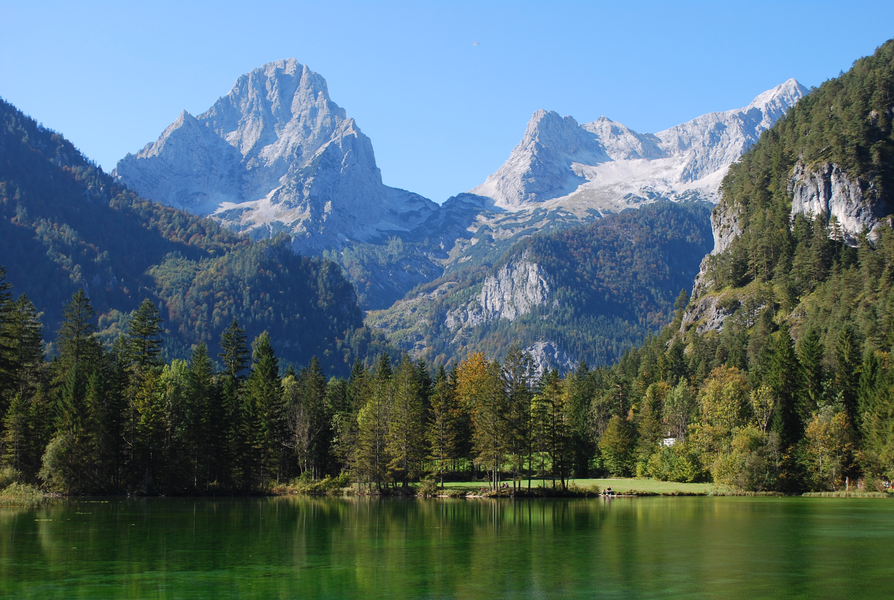 The Schiederweiher lake, with in the background, from left to right the Spitzmauer, Brotfall and Großer Priel